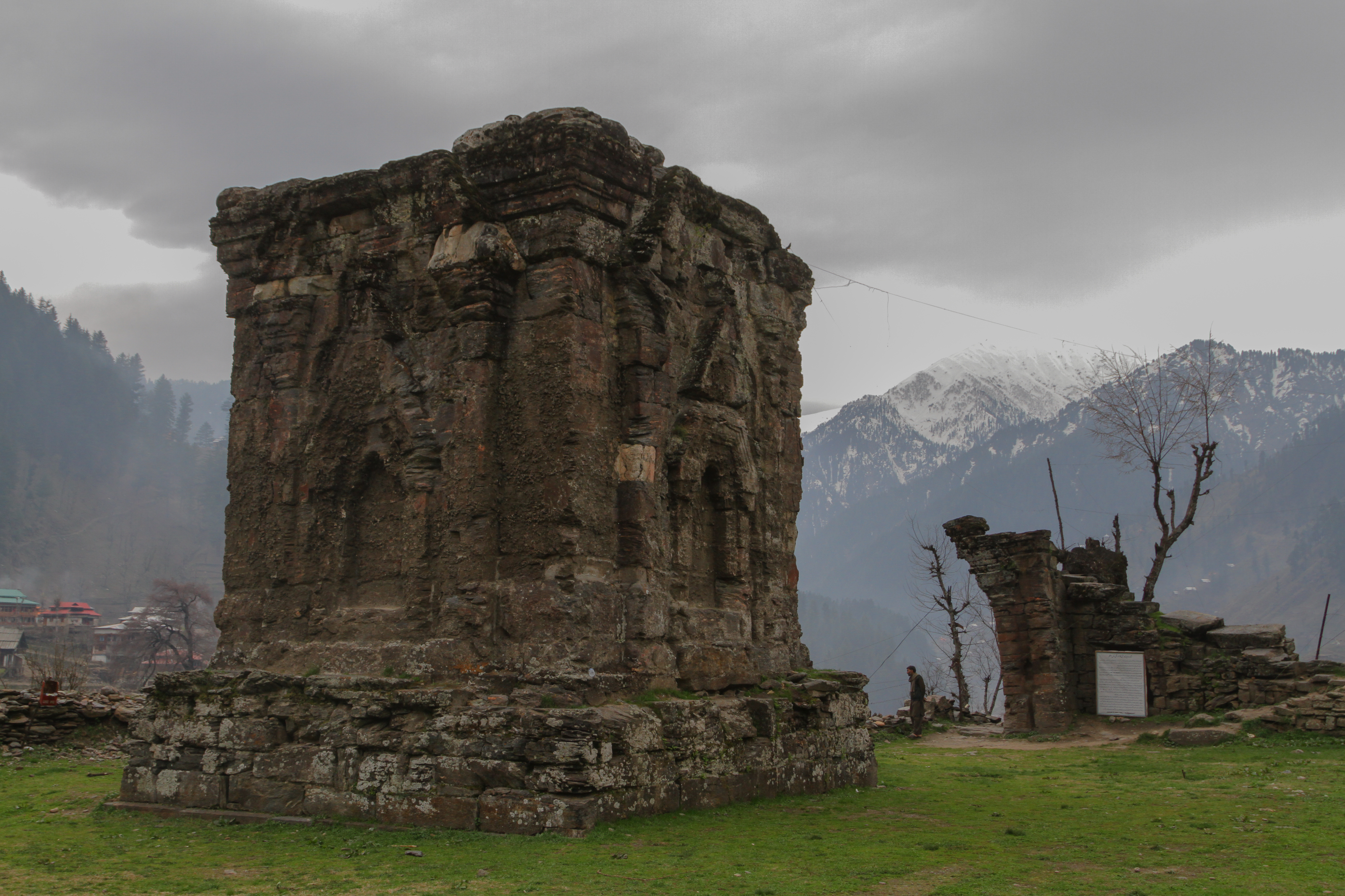 Sharda Buddhist University: Sharada Peeth (Urdu: شاردا پیٹھ), located near Sharda in Azad Kashmir , at the de-facto border of India and Pakistan (Line of Control) (LOC), was the famous temple of the goddess Sarasvatī (Sharda) on the banks of Kishenganga River in Pakistan administered Kashmir.[1] Its ruins are near the Line of Control (LOC)[1] between the Indian and Pakistani-controlled portions of the former princely state of Kashmir and Jammu. Shina, Pahari, and Kashmiri languages are mostly spoken in the area. Kashmir was a high established centre of learning of vedantic works until Muslim invaders from central-Asian countries came and destroyed it. Indegenious script of Kashmir is named after the deity Sharada Devi.[2] Kashmir was sometimes called Sharada Desh because of this temple and Sharada was called Kashmira Puravasini (resident of city of Kashmir ).[citation needed]The Kashmiris are highly devoted towards this great deity[1] addressed as Bhagavathy. During their daily worship they often say "Namastey Sharada Devi Kashmir Pur Vasini Tvam Ham Prartheye Nityam Vidya Danam Che De hi mey" meaning Salutations to you, O Sharada, O Goddess, O one who resides in Kashmir. I pray to you daily, please give me the charity of knowledge. The temple was last repaired by Maharaja Gulab Singh of Kashmir. This is a photo of a monument in Pakistan identified as the AJK-24